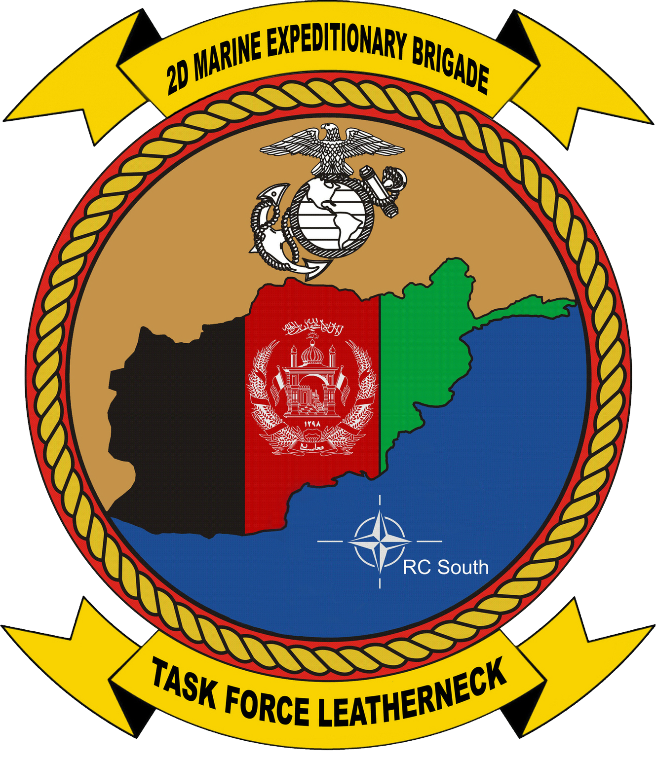 Unit insignia of 2d Marine Expeditionary Brigade for its deployment to Afghanistan in 2009.